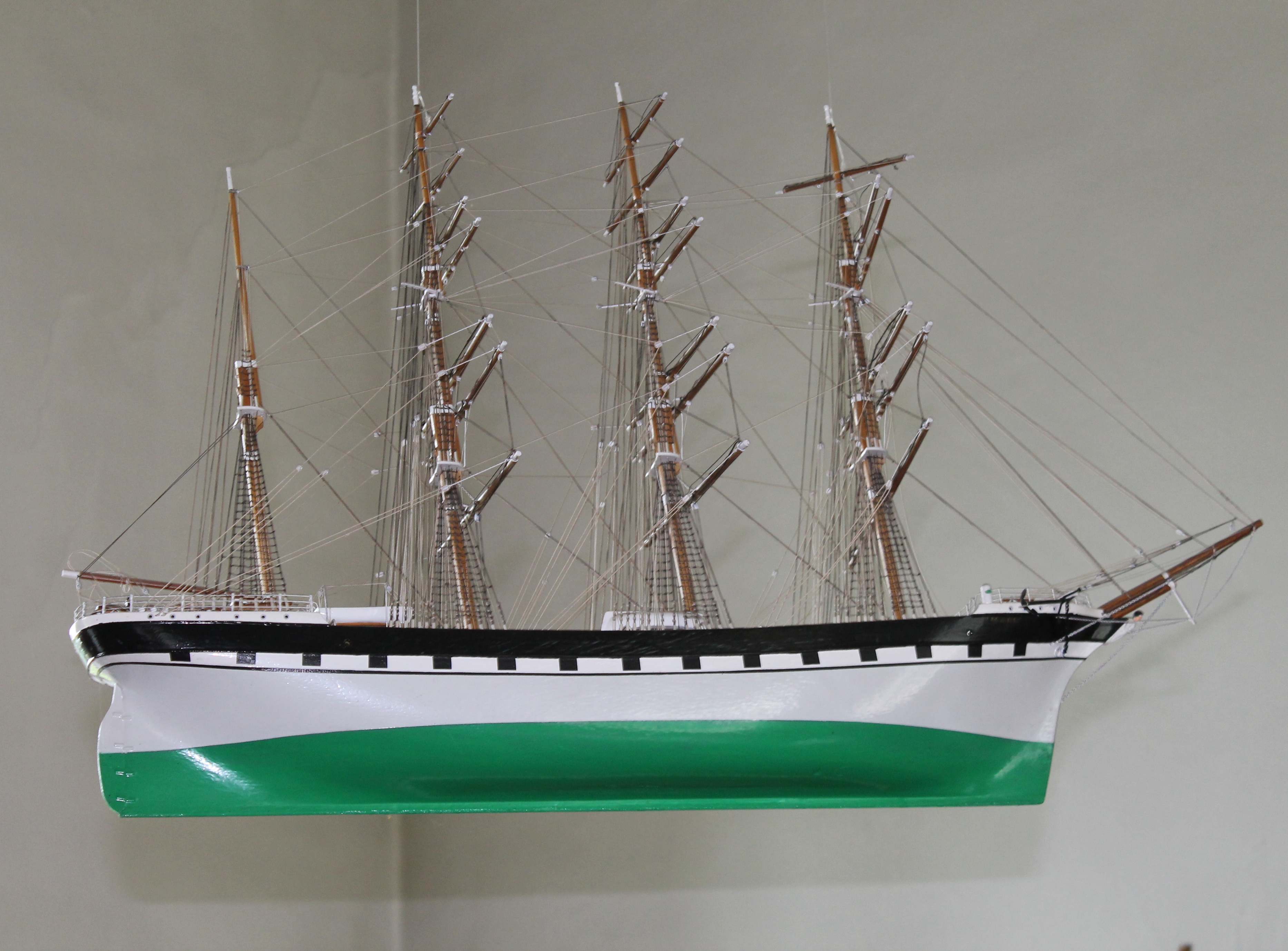 Hulterstad Church.Votive ship. The Bark Beatrice.